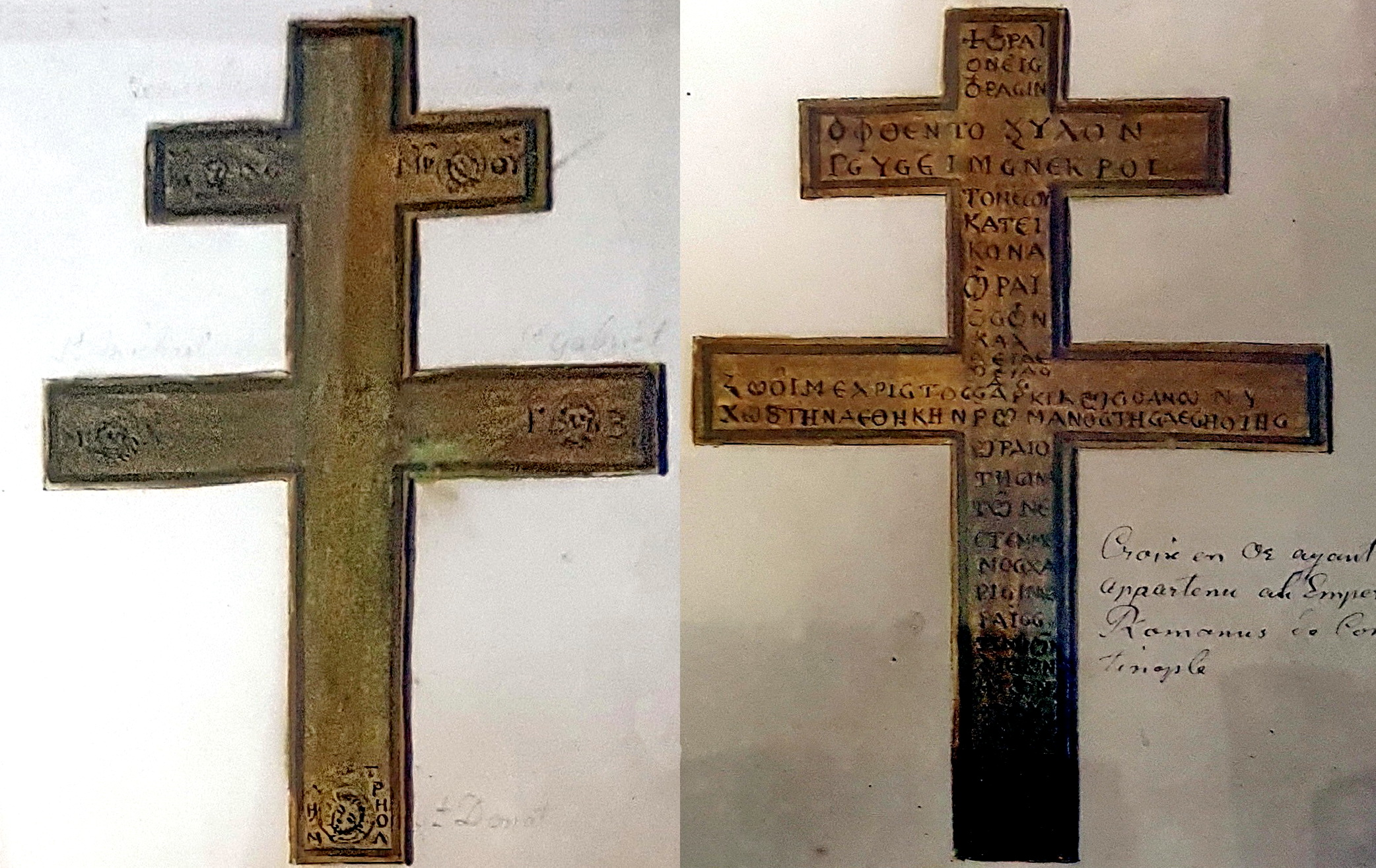 Detail of a 19th-century drawing by Philippe van Gulpen, as part of a small exhibition in a first floor corridor in the cloisters of the Kruisherenklooster in Maastricht, the Netherlands. The Gothic Monastery of the Crutched Friars dates from the 15th century and in 2005 was converted into a luxury hotel, the Kruisherenhotel. The drawings and aquarels by Van Gulpen were collected by the hotel owner Camille Oostwegel.